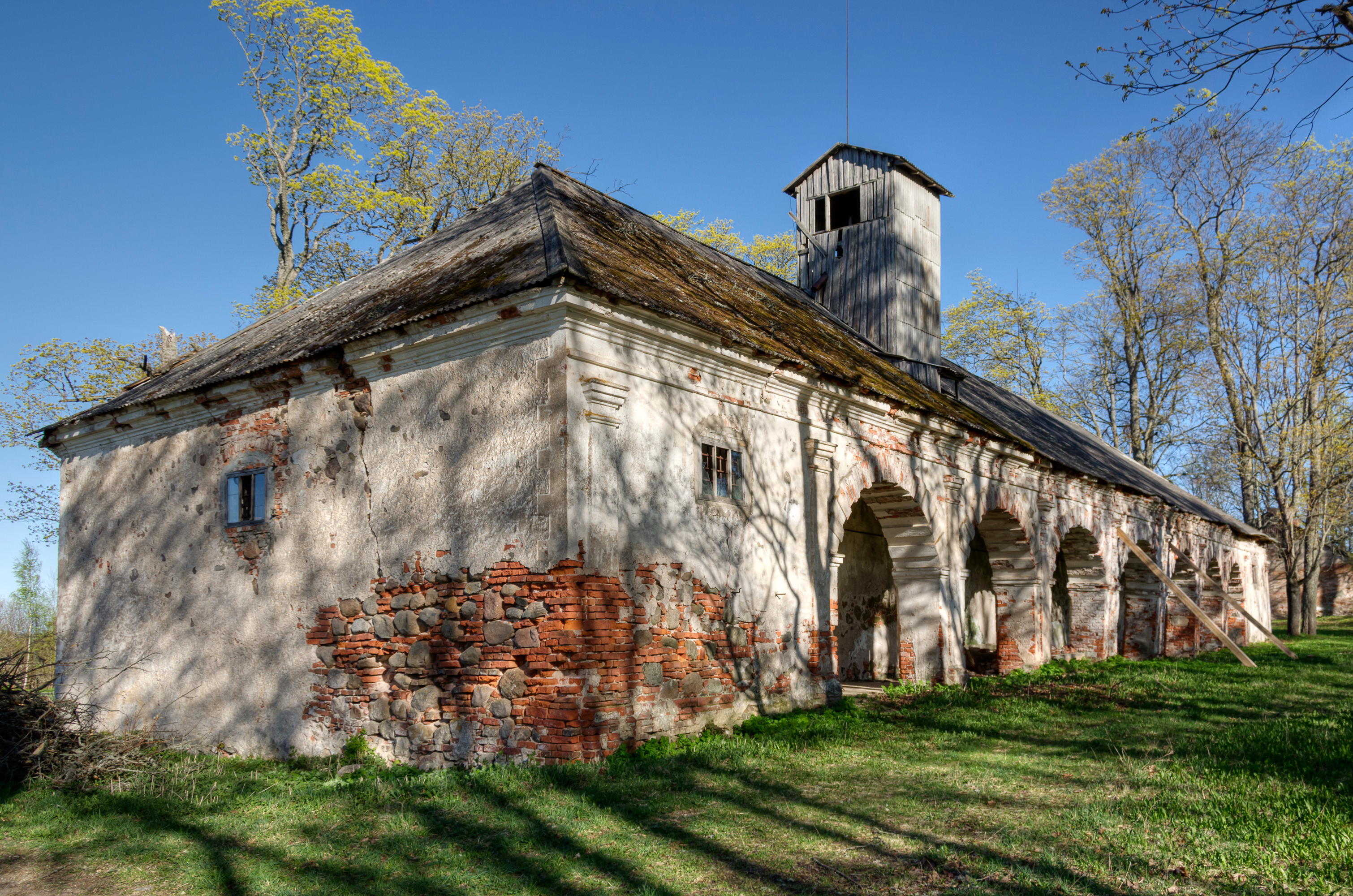 The granary in Saare Manor